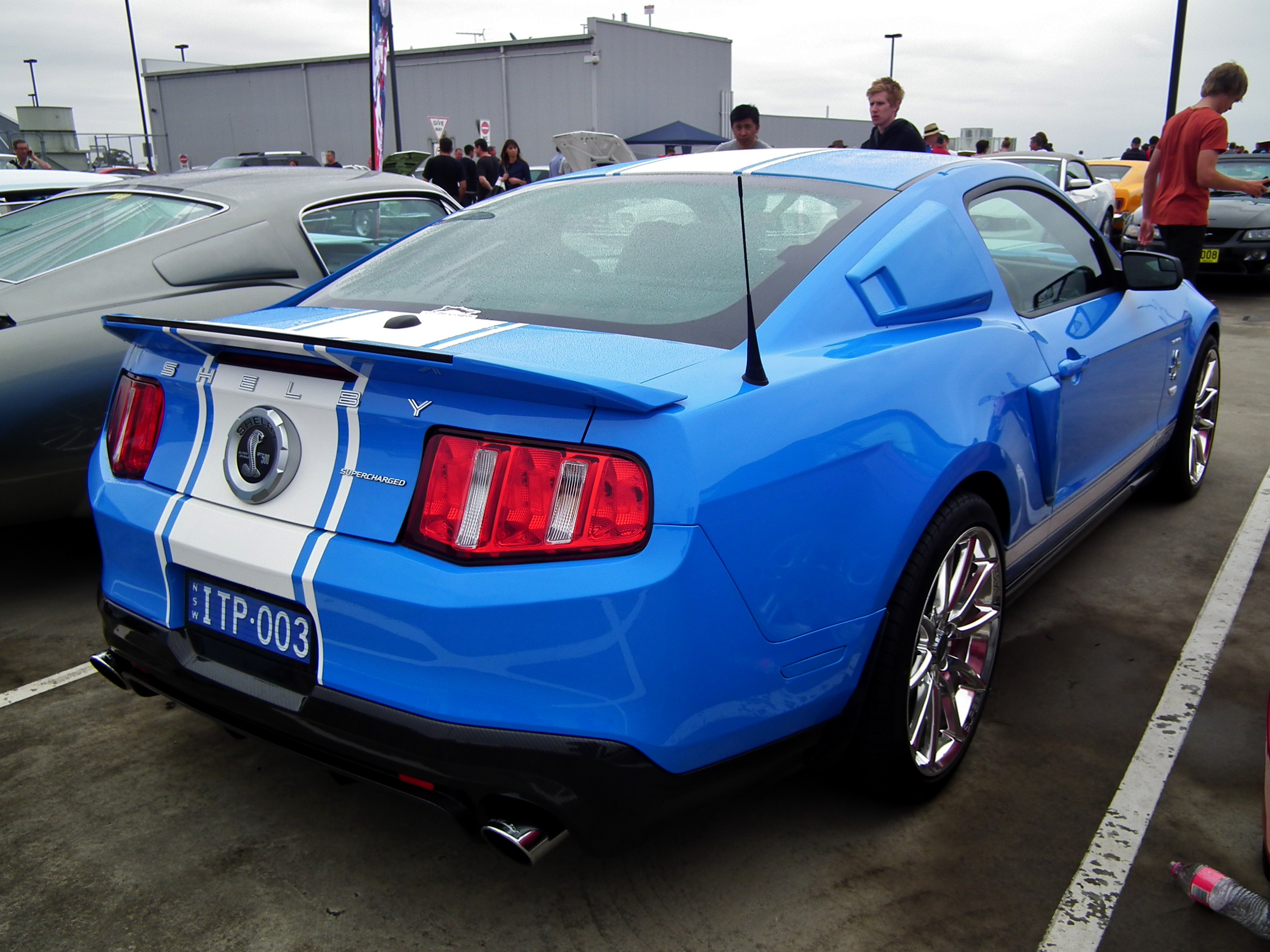 2012 Ford Mustang Shelby GT 500 Super Snake coupe. Taken at the 2013 New South Wales All American Day, held at Castle Towers Shopping Centre, Castle Hill, Sydney.